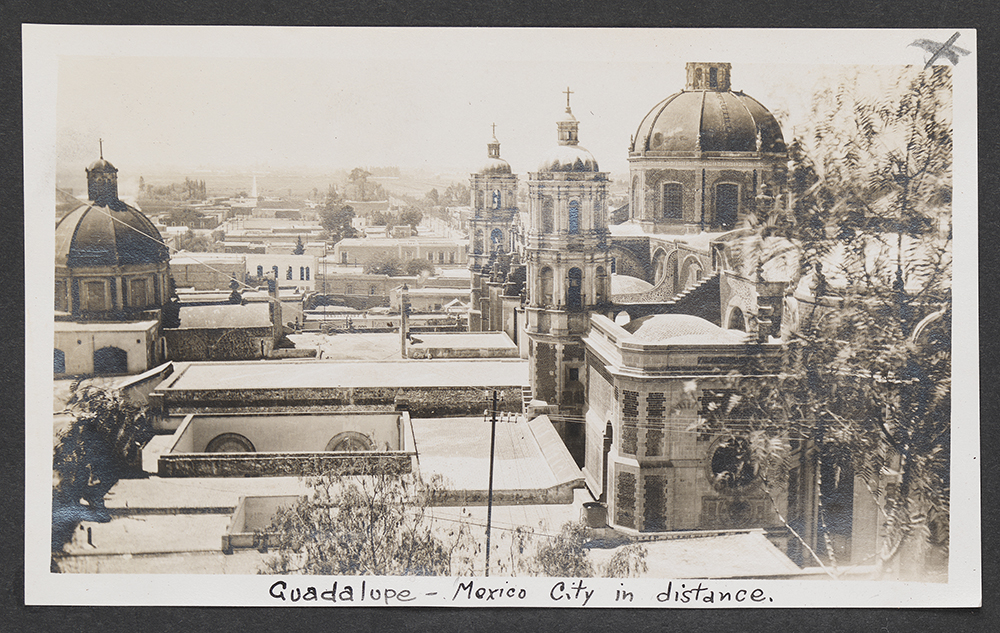 Title: Guadalupe. Mexico City in distance. Creator: Unknown Date: ca. 1910-1911 Place: Mexico City, Federal District, Mexico Part Of: Oil fields in Mexico Physical Description: 1 photographic print: gelatin silver, part of 1 volume (180 gelatin silver prints); 9 x 14 cm on 26 x 31 cm mount File: ag2006_0002_39a_opt.jpg Rights: Please cite DeGolyer Library, Southern Methodist University when using this file. A high-resolution version of this file may be obtained for a fee. For details see the web page. For other information, . For more information, View the full series: View Mexico - Photographs, Manuscripts, and Imprints Collection